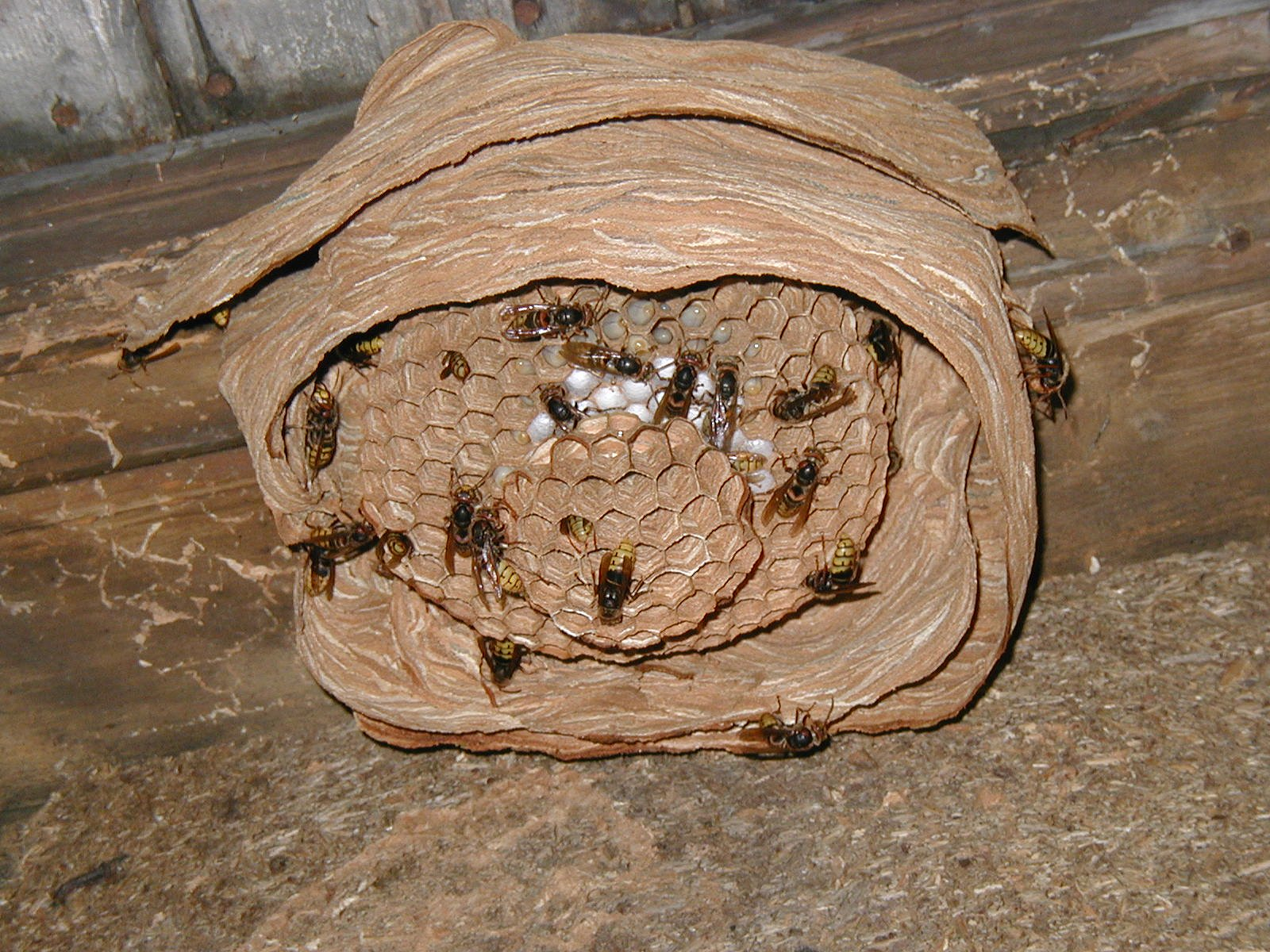 A hornets nest in the attic of a country house in Estonia